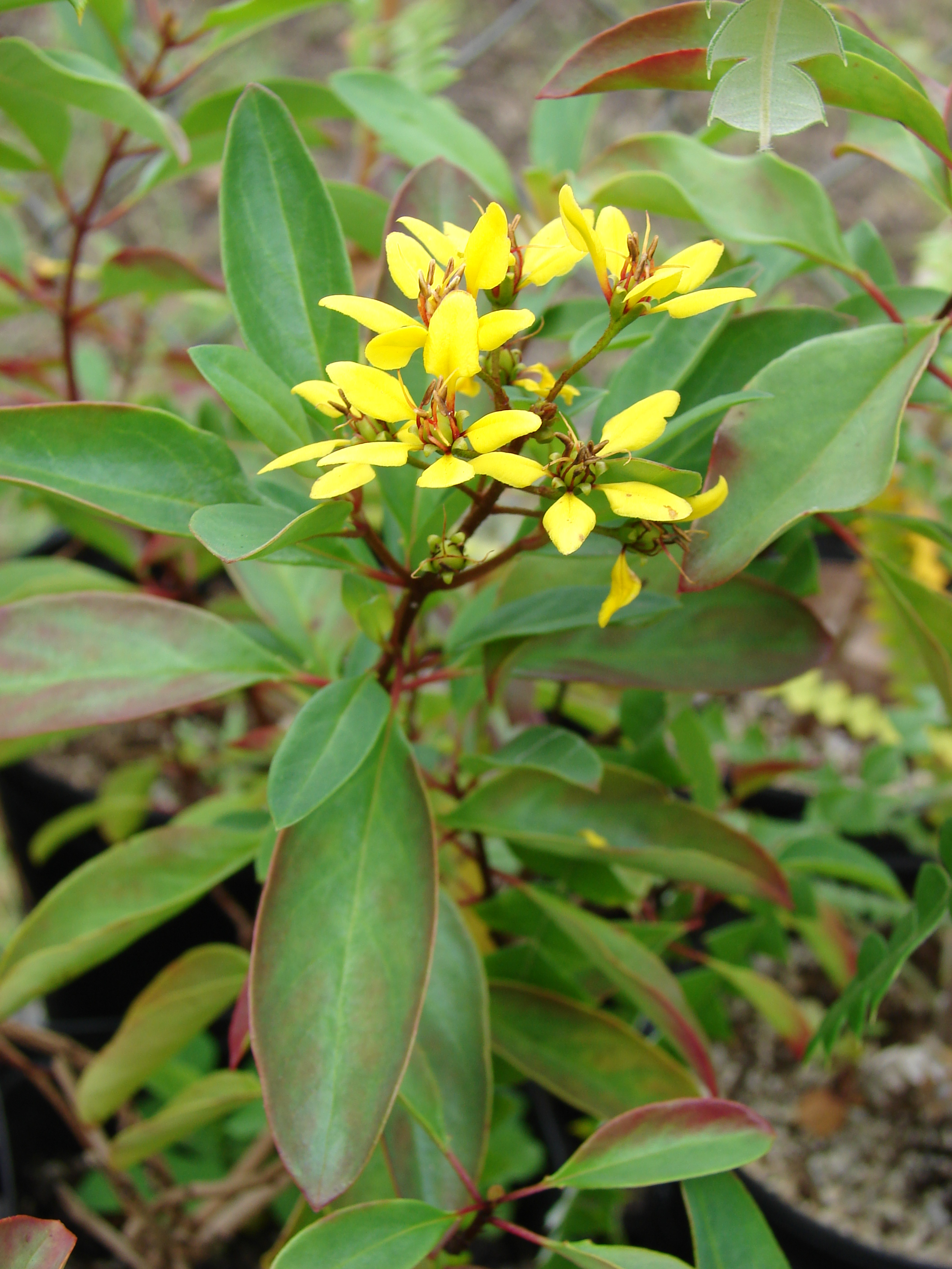 Galphimia gracilis (flowers). Location: Maui, Kula Ace Hardware and Nursery